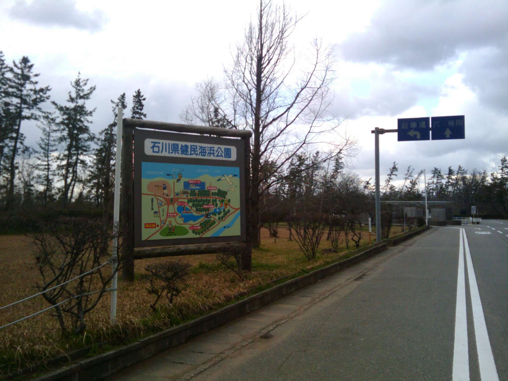 Kenminkaihin Park (Kanazawa, Ishikawa, Japan)